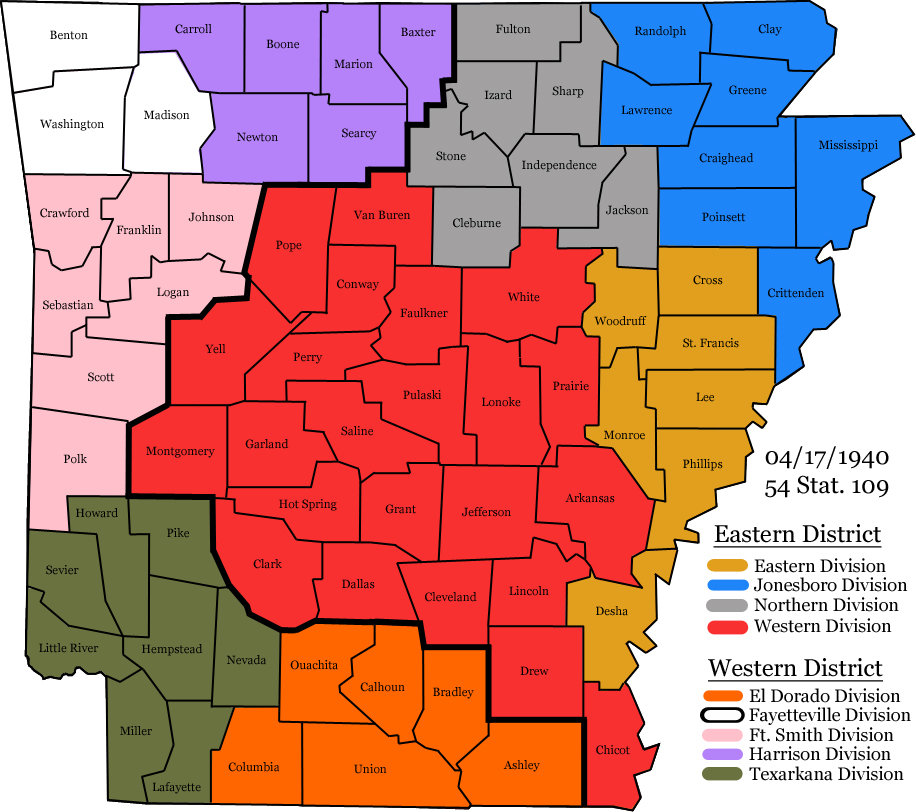 Arkansas districts - Apr 17, 1940